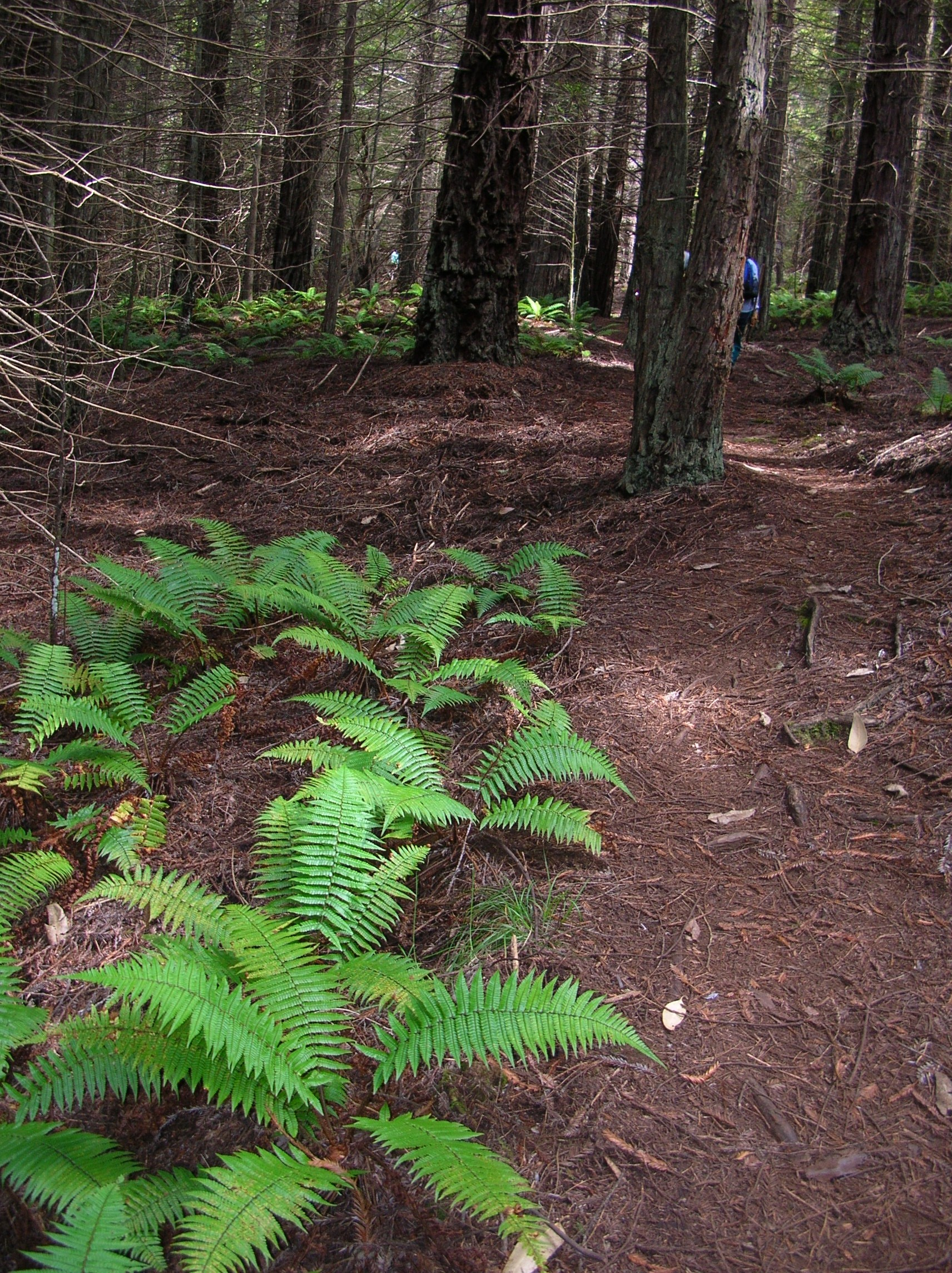 Dryopteris wallichiana (seed pods). Location: Maui, Polipoli